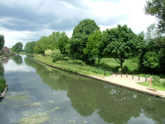 Edge of Hackney Marshes from Homerton Road bridge